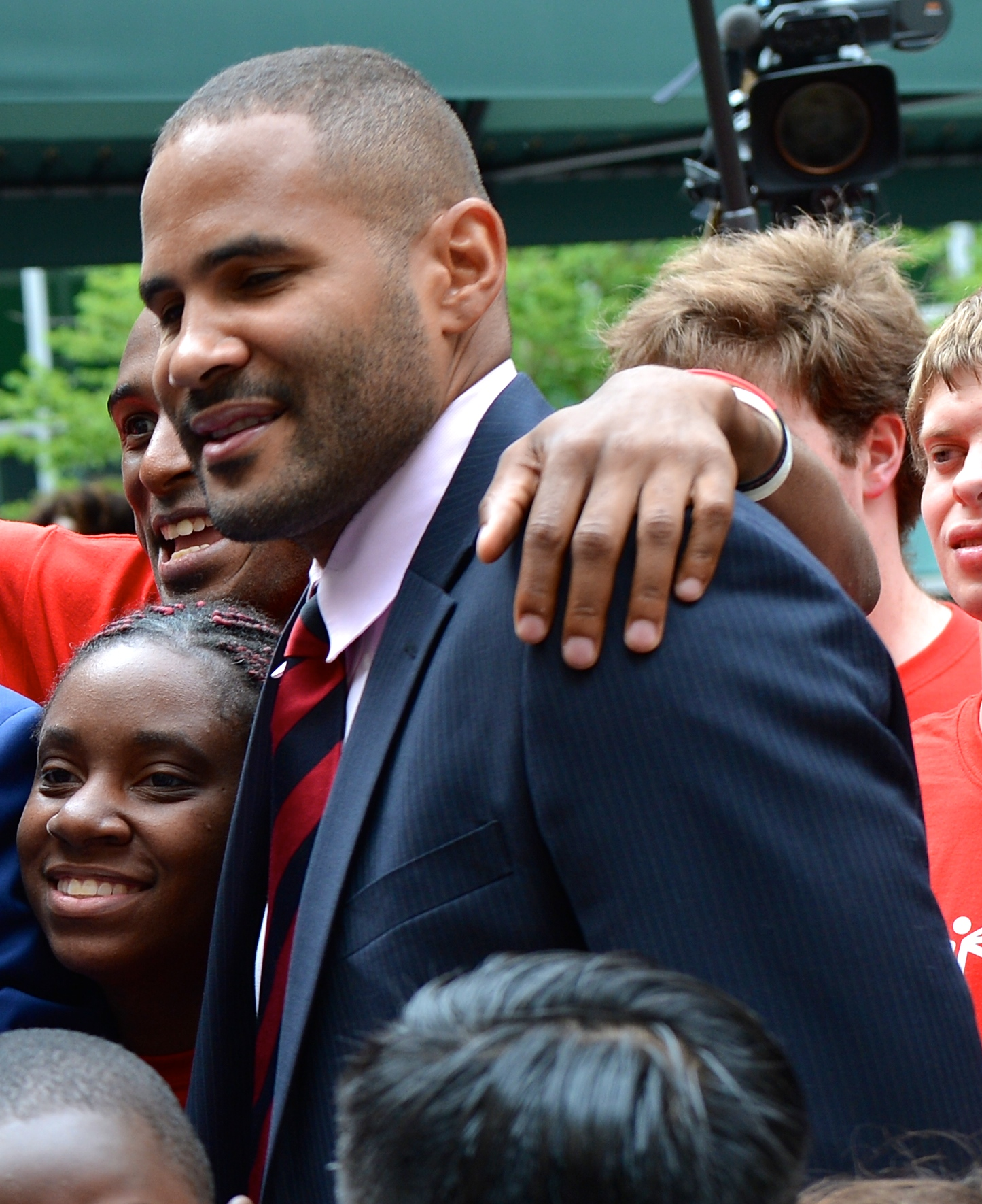 U.S. Secretary of State John Kerry poses for a photo with athletes from local youth soccer organizations and Sports Envoys Briana Scurry, Cobi Jones, and Tony Sanneh at the U.S. Department of State in Washington, D.C., on April 14, 2014. [State Department photo/ Public Domain]